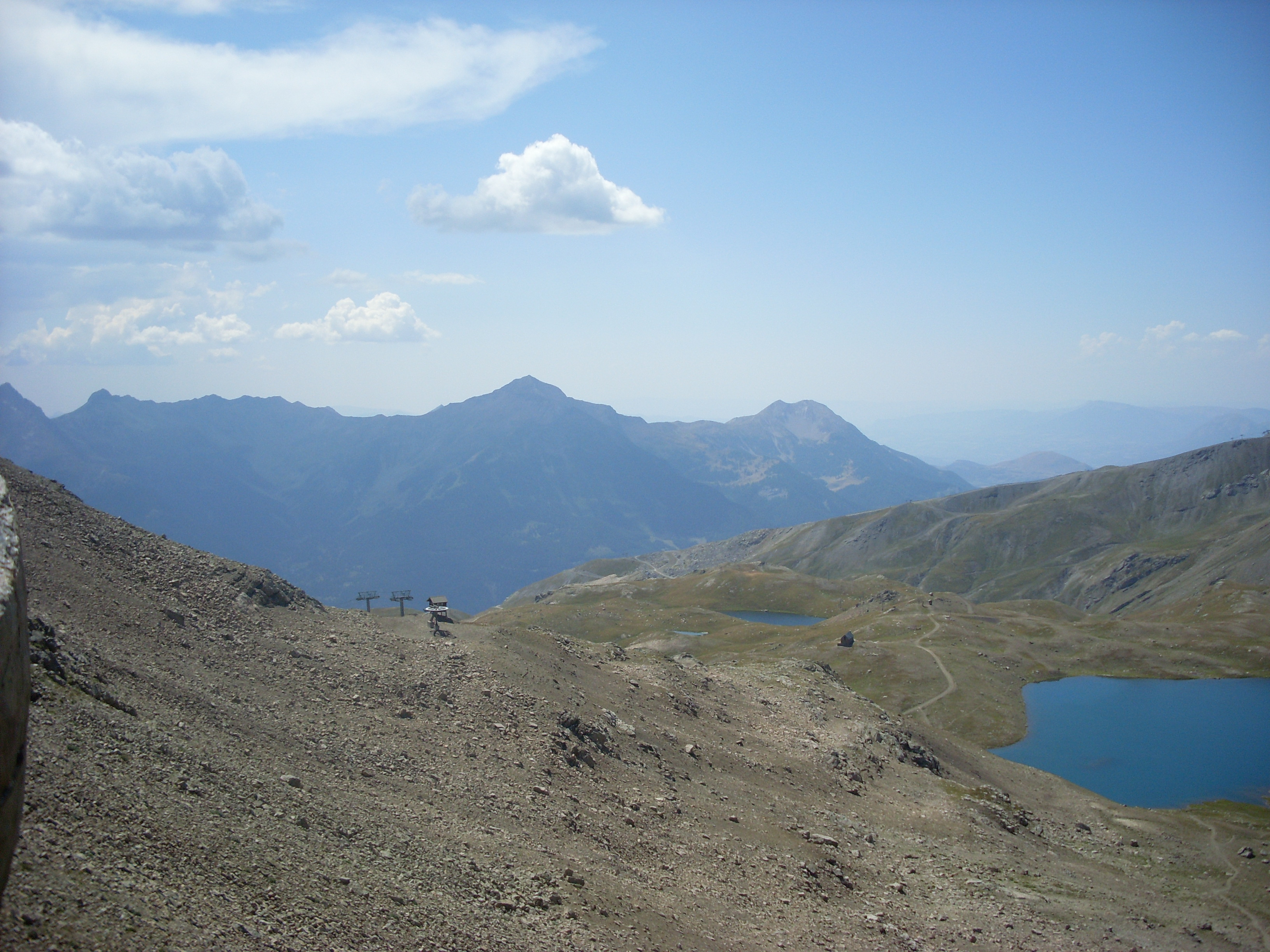 champsaur depuis col de freissinière. A droite le Grand Lac de Estaris (2559,6m)